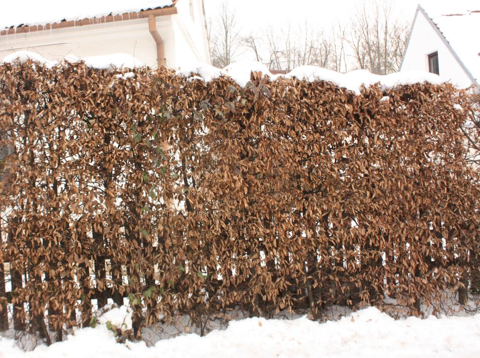 Carpinus betulus, hedge, Czech republic, EU, Brno Komín